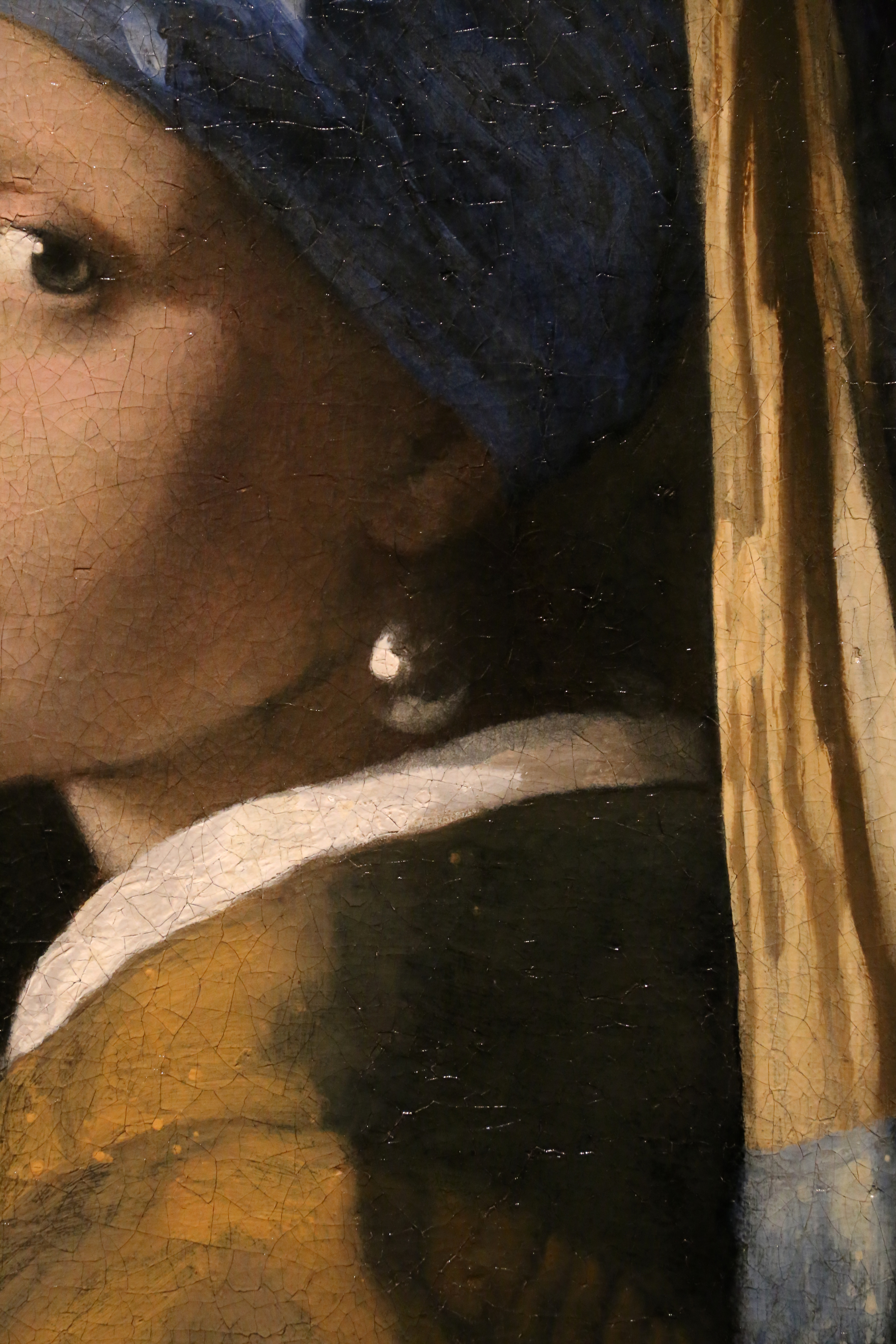 Paintings by Johannes Vermeer in the Mauritshuis